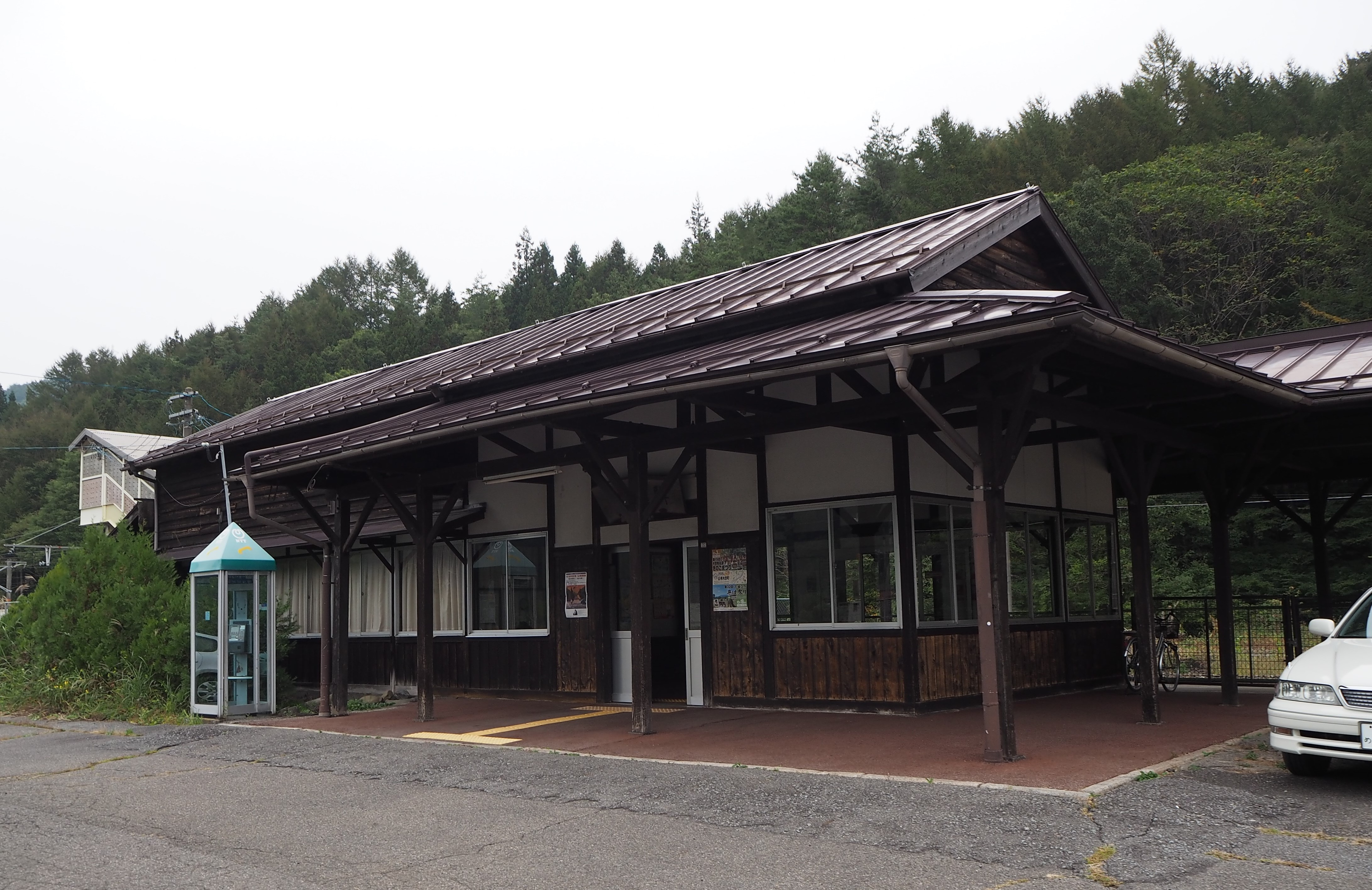 Miyanokoshi Station